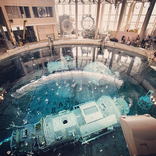 Neutral Buoyancy Trainer